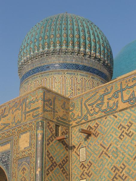 A close-up of a small dome on the Mausoleum of Khoja Ahmed Yasavi (Mazar of Khoja Ahmed Yasawi) in South Kazakhstan.